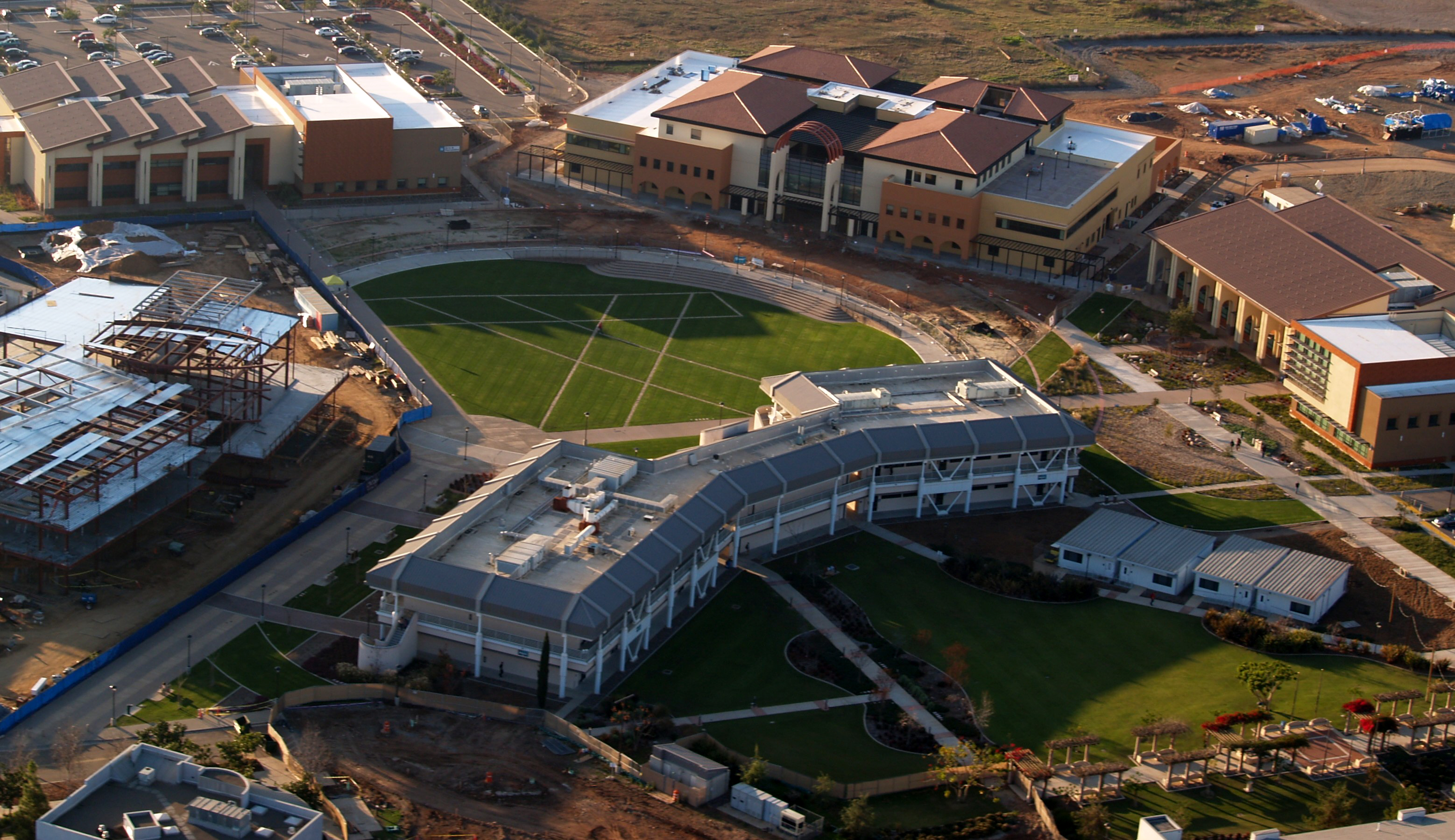 Aerial view of San Diego Miramar College Please acknowledge "Phil Konstantin" as the creator of this photograph.